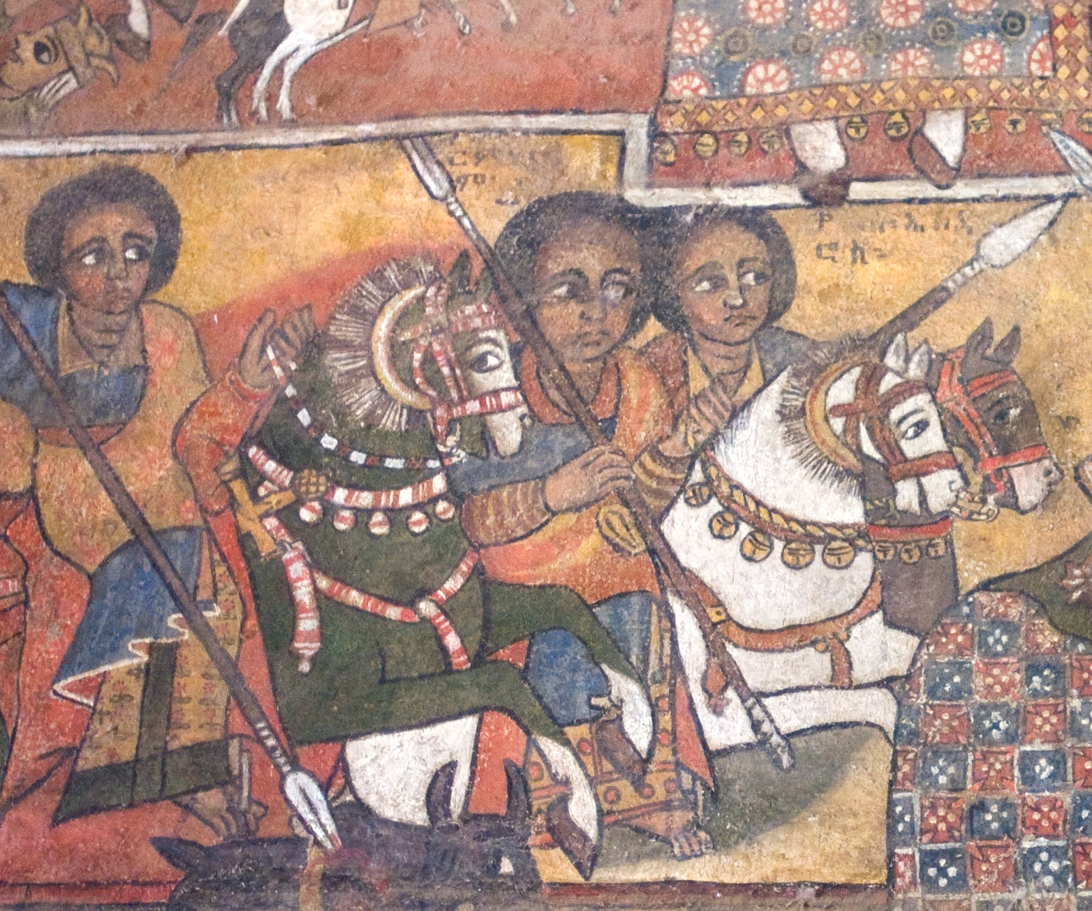 I just can't get enough of the fabulous horses in Ethiopian religious paintings. The horses always look so perky and heroic. This society must have loved its horses. Church of Debra Berhan Selassie, Gondar, Ethiopia. Emperor Iyasu the Great, a grandson of Emperor Fasilides, built the Church of Debra Berhan Selassie, which means "The Light of the Trinity" in Amharic. Emperor Iyasu ruled from 1682 until his assassination in 1706. According to the website : A plain, thatched, rectangular structure on the outside, the interior of Debra Berhan Selassie is marvelously painted with a great many scenes from religious history. The spaces between the beams of the ceiling contain the brilliant wide-eyed images of more than eighty angels faces - all different, with their own character and expressions. The north wall, in which is the holy of holies, is dominated by a depiction of the Trinity above the crucifixion. The theme of the south wall is St Mary; that of the east wall the life of Jesus. The west wall shows important saints, with St George in red-and-gold on a prancing white horse.